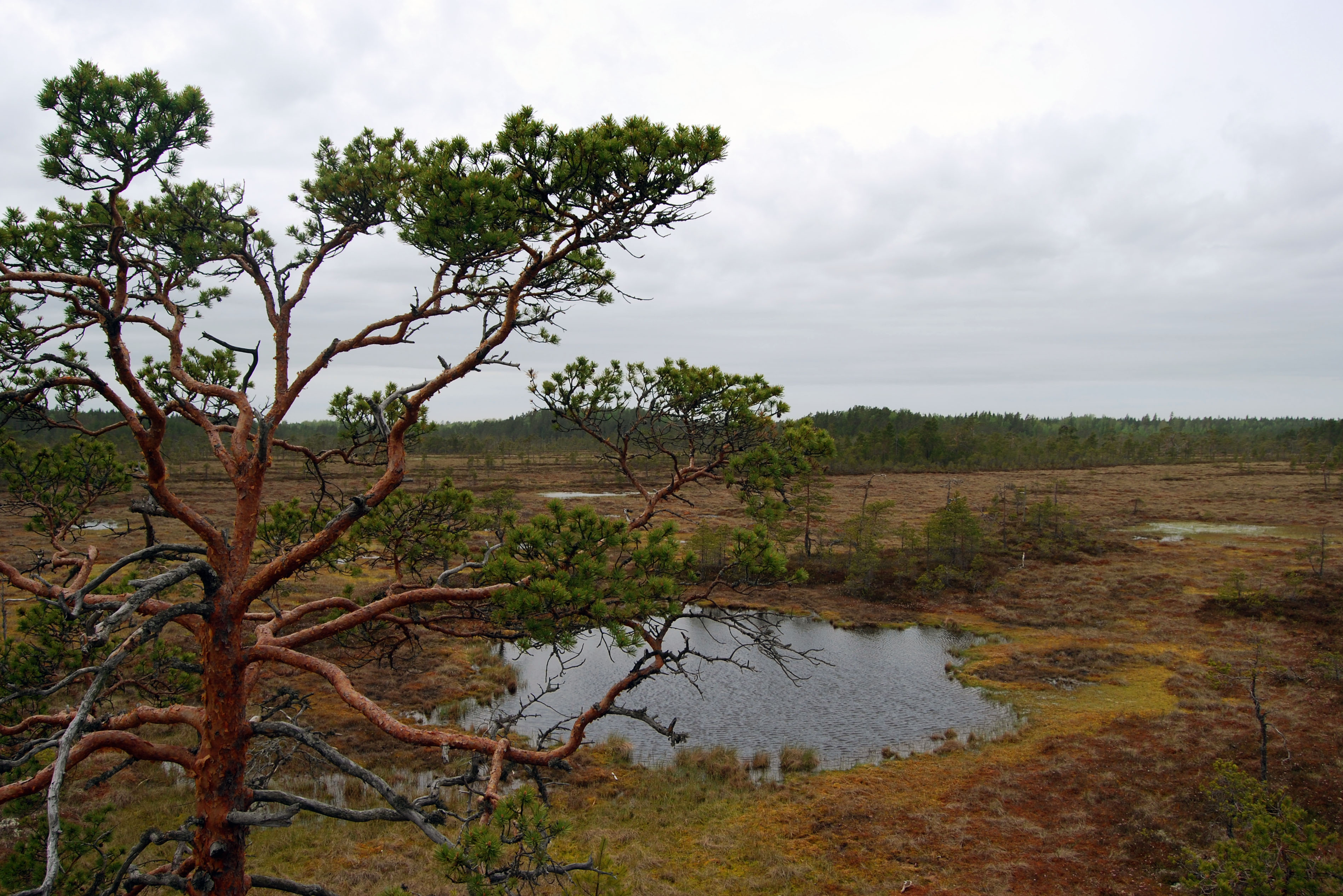 Photo from Isosuo mire in Huittinen, Finland